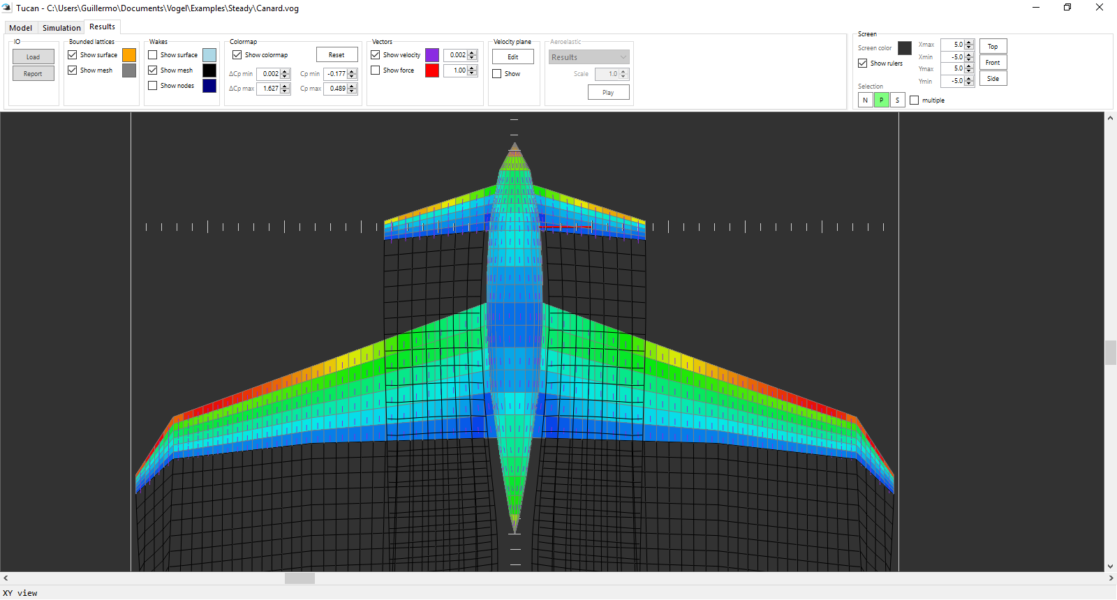 Tucan main window